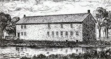 First Cotton Mill, built in 1811, Fall River, MA; from a postcard "compliments of Dover Press, Printers, Fall River Cotton Centennial Exposition, State Armory, June 19-24, 1911"